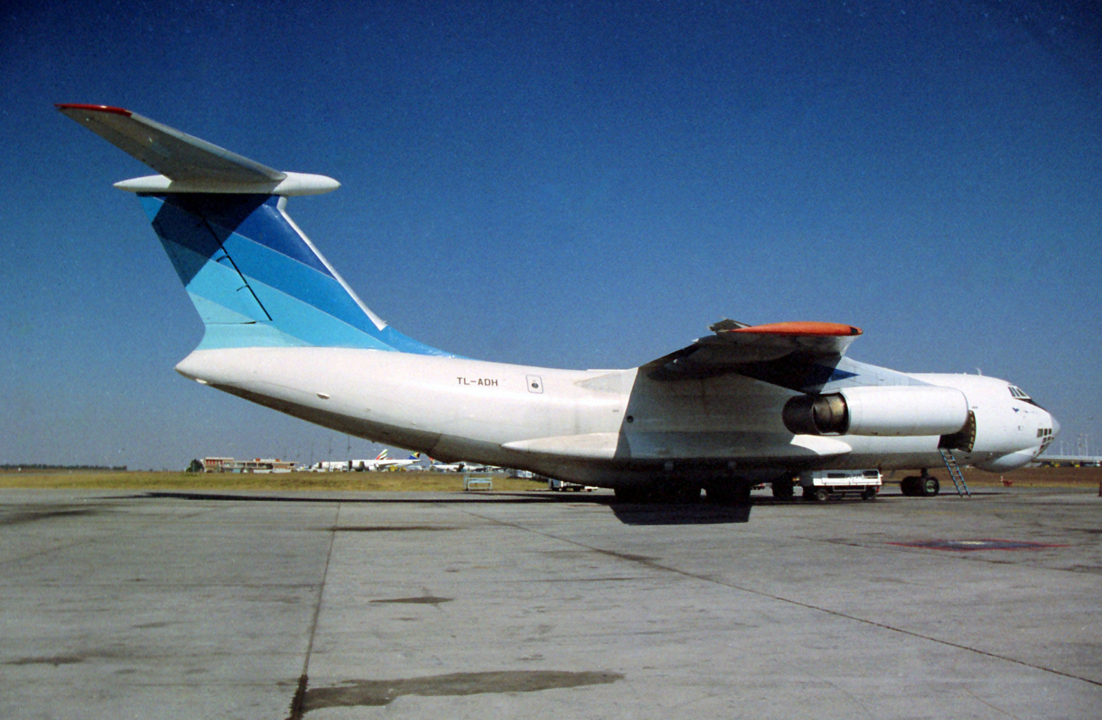 Centrafican IL-76T TL-ADH